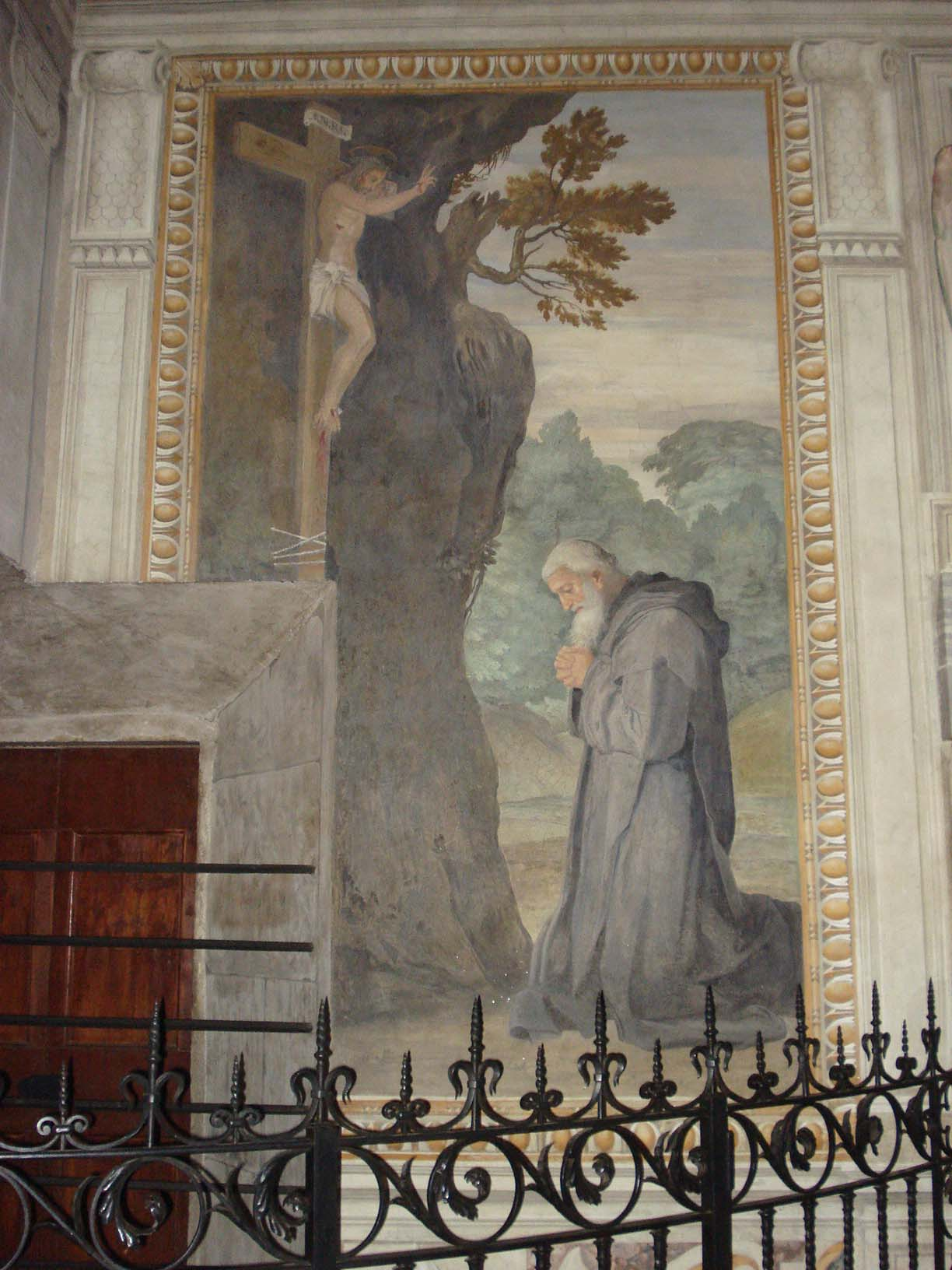 St Nilus's vision of Christ (Domenichino, Farnese Chapel)